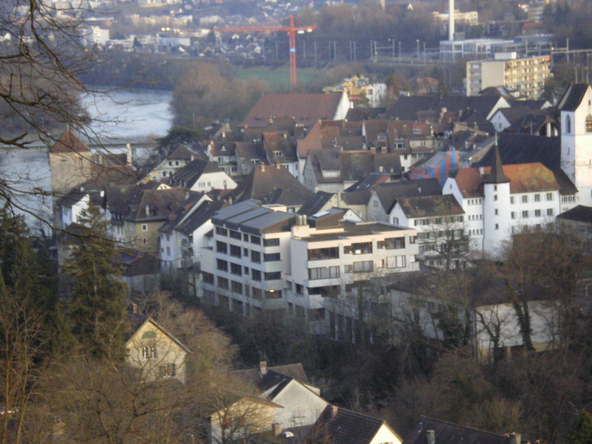 Looking down towards the old town of Brugg from the Bruggerberg